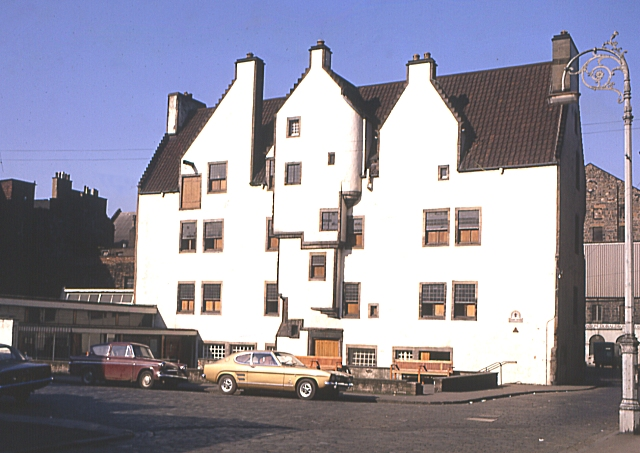 Andrew Lamb's House. Built in 1587 by wealthy merchant Andrew Lamb, this is one of very few surviving houses of that date. It now offers day care facilities.